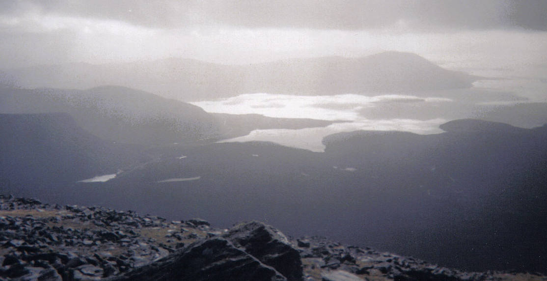 West Loch Tarbert is a sea-loch to the West of Tairbeart, Isle of Na Hearadh (Harris). It separates South Harris from North Harris. In this image, taken from Clisham, the loch is the farther one on the right. The smaller loch in front of it is Loch Bun Abhainn-eadar. The islet on the right is Isay.